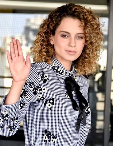 Kangana Ranaut promoting Rangoon in 2017